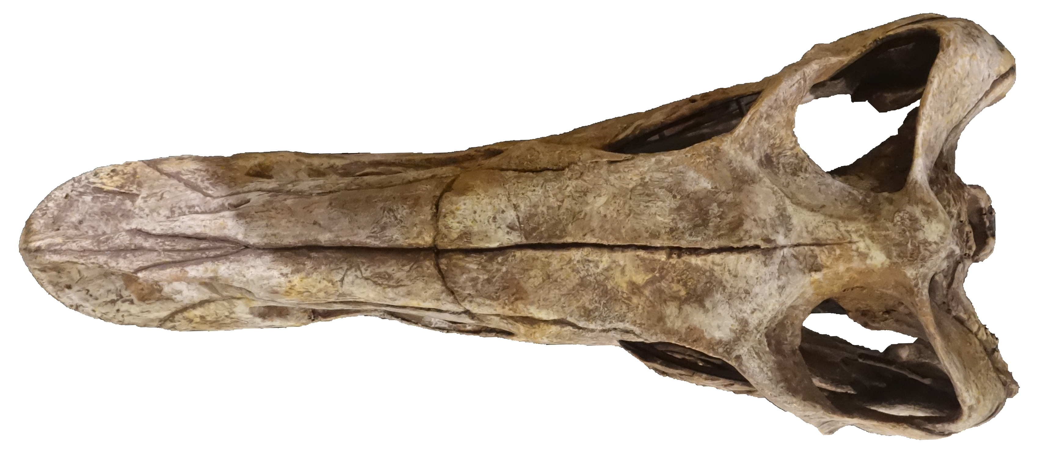 Top view of a skull cast of Falcarius utahensis, on display at the Museum of Western Colorado’s Dinosaur Journey Museum in Fruita, Colorado